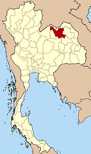 Map of Thailand highlighting Udon Thani province.